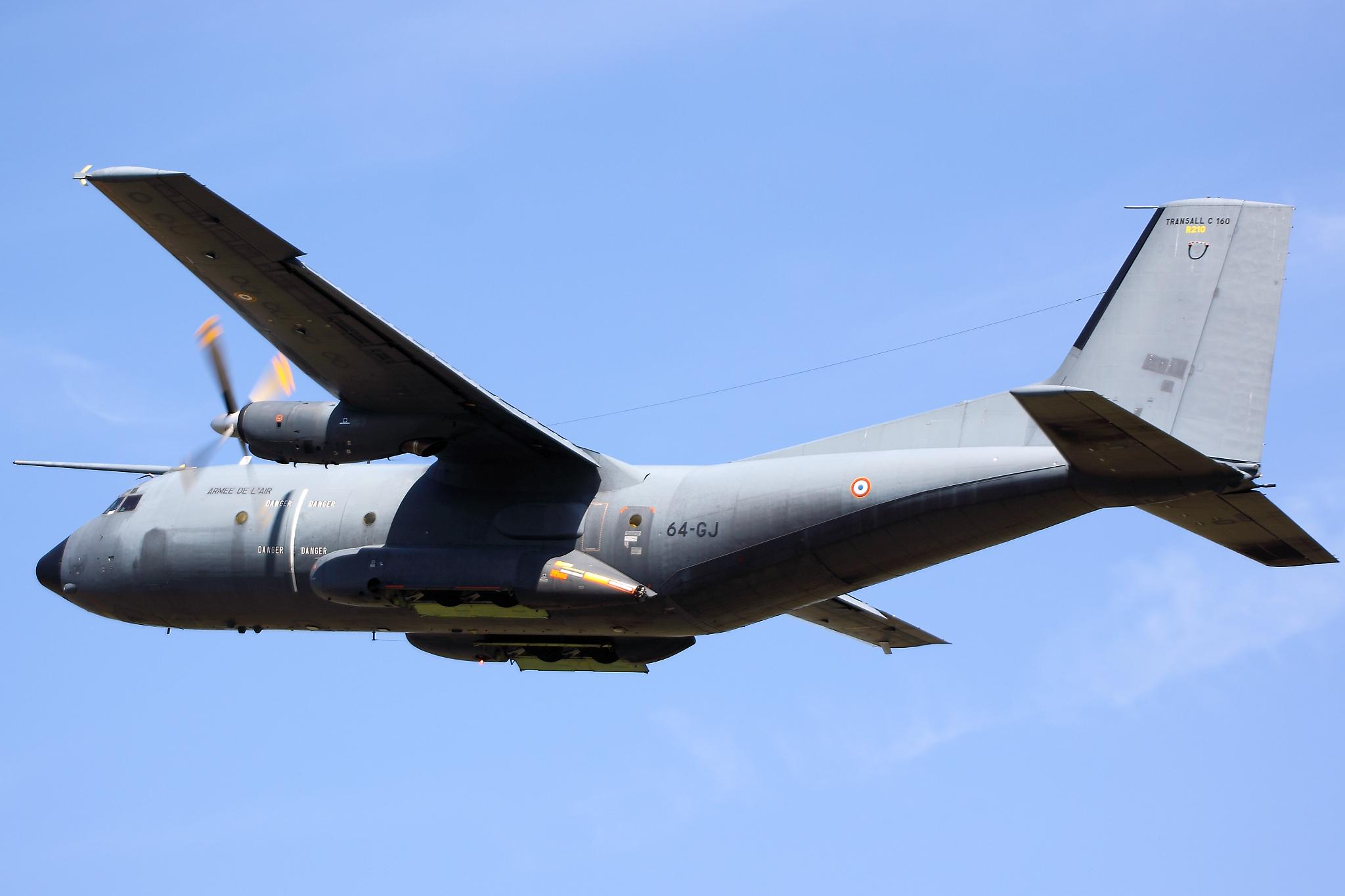 C160 - RIAT 2010